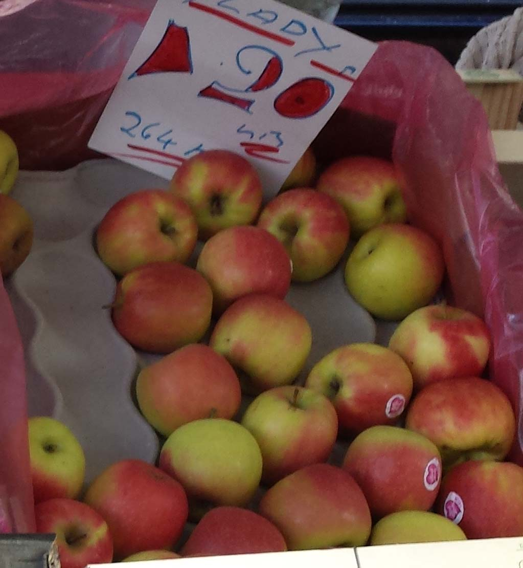 Pink Lady apples for sale on a UK greengrocer's market stall in August 2013 at £1.20/lb (price per pound weight)